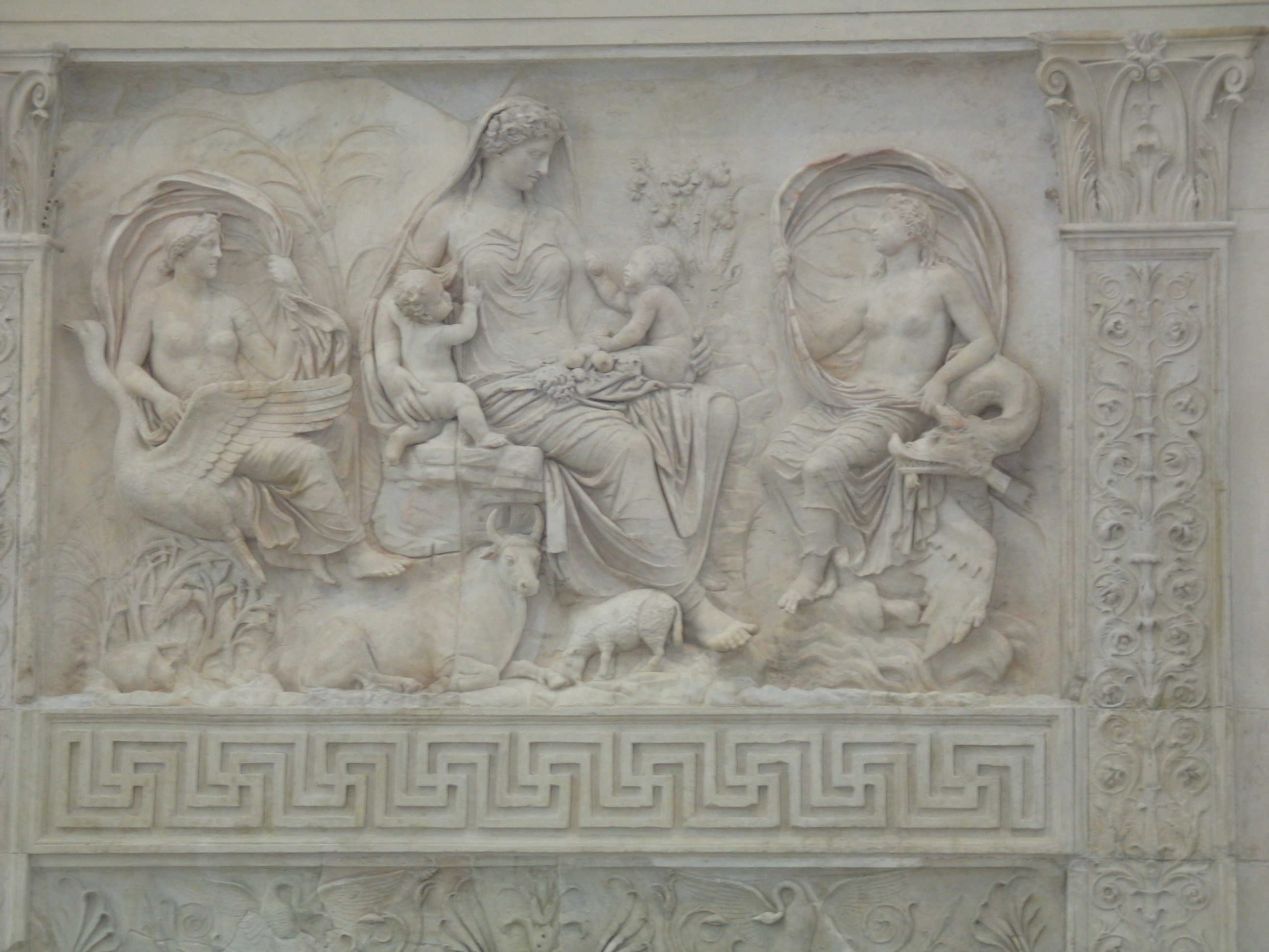 On the eastern side of Ara Pacis is a relief of Tellus Mater, the Roman earth-goddess